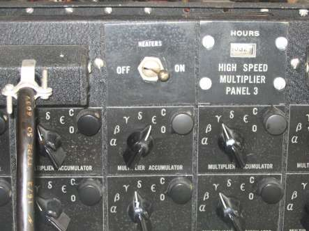 A close-up view of a control panel from ENIAC; this is from a panel on display at the University of Michigan. I took this picture myself, yesterday (16 September 2006). I release this to the public domain.